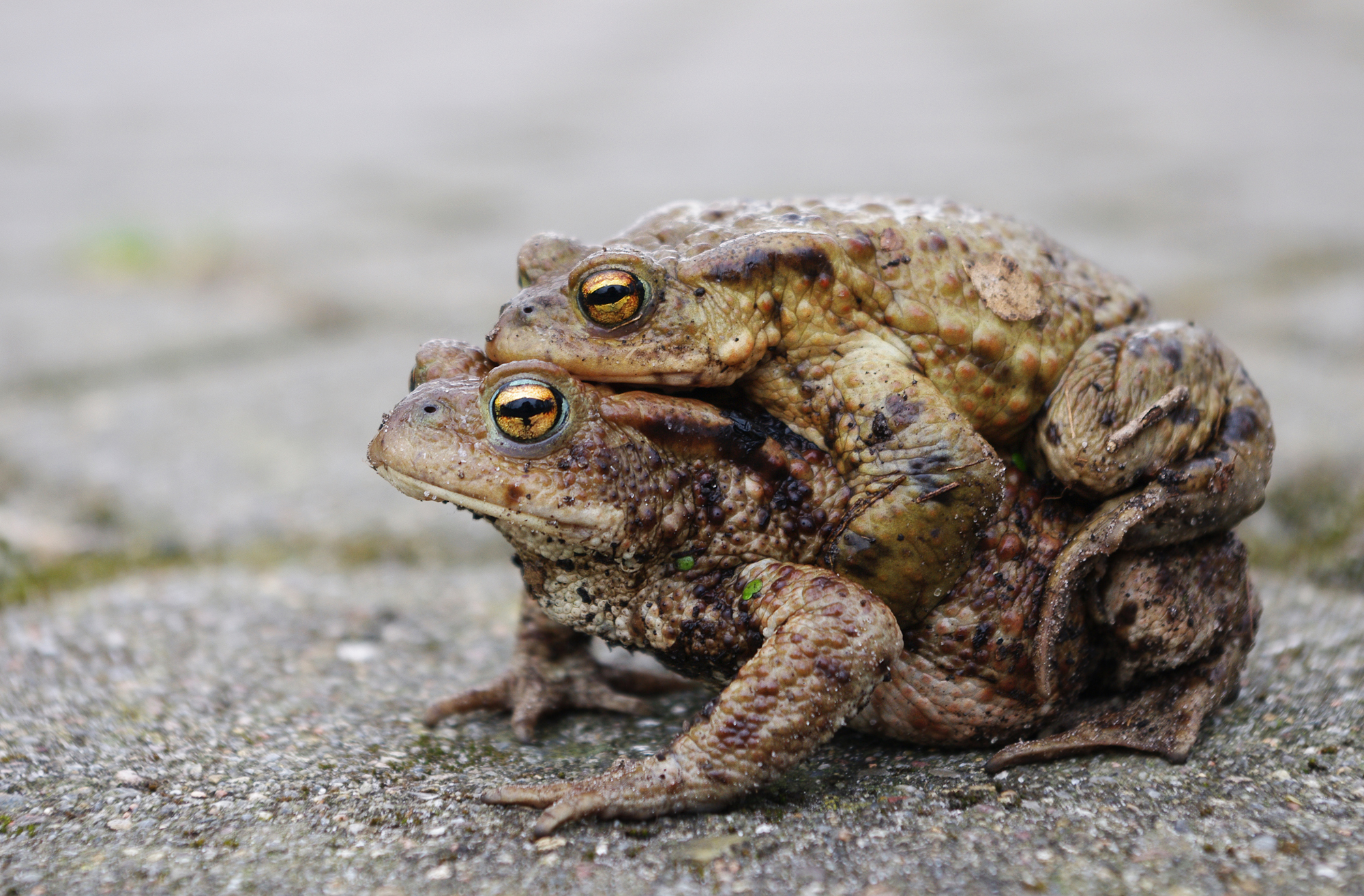 Male and female Common Toad (Bufo bufo) on a road during spring migration to the spawning waters.